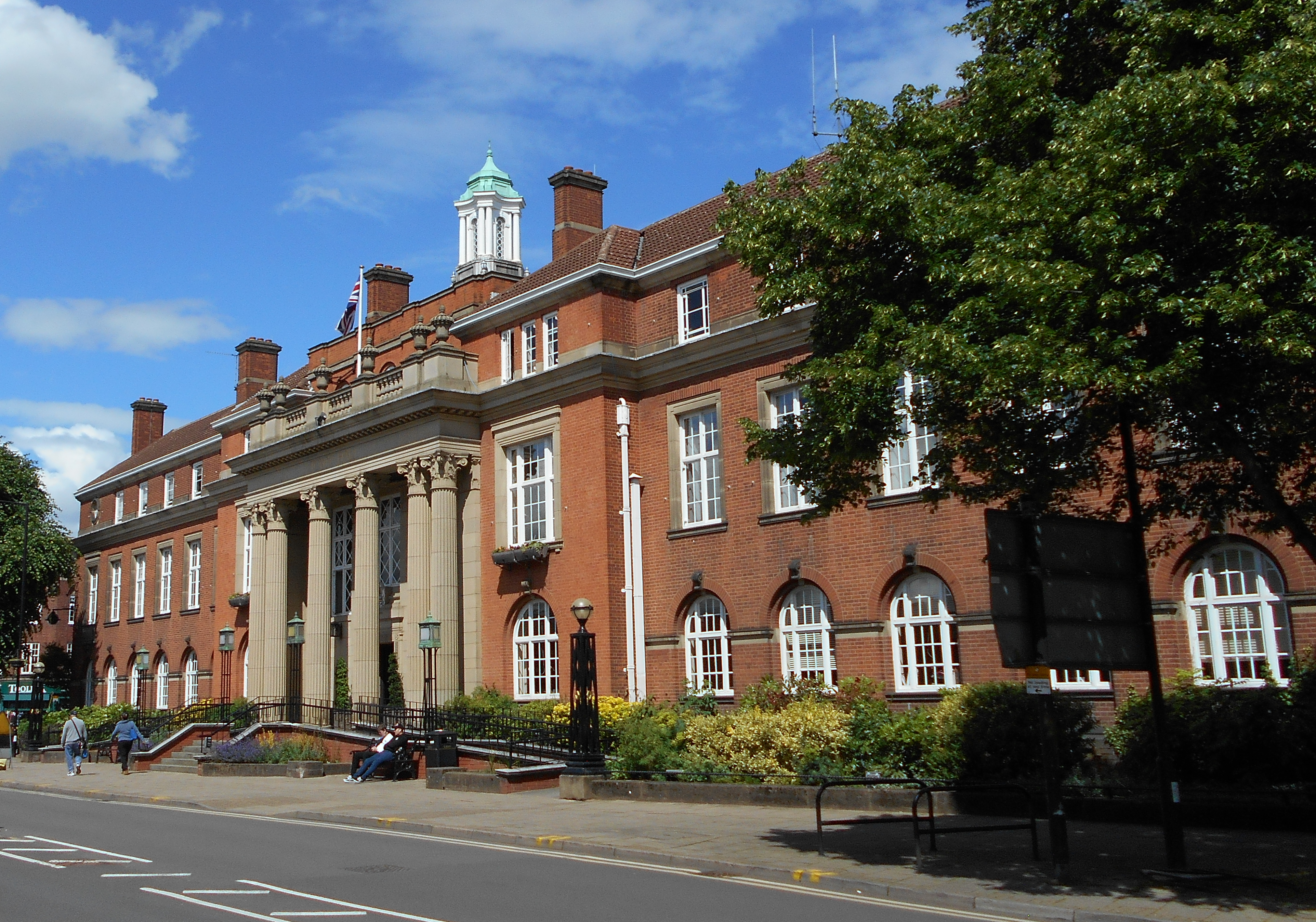 Nuneaton Town Hall